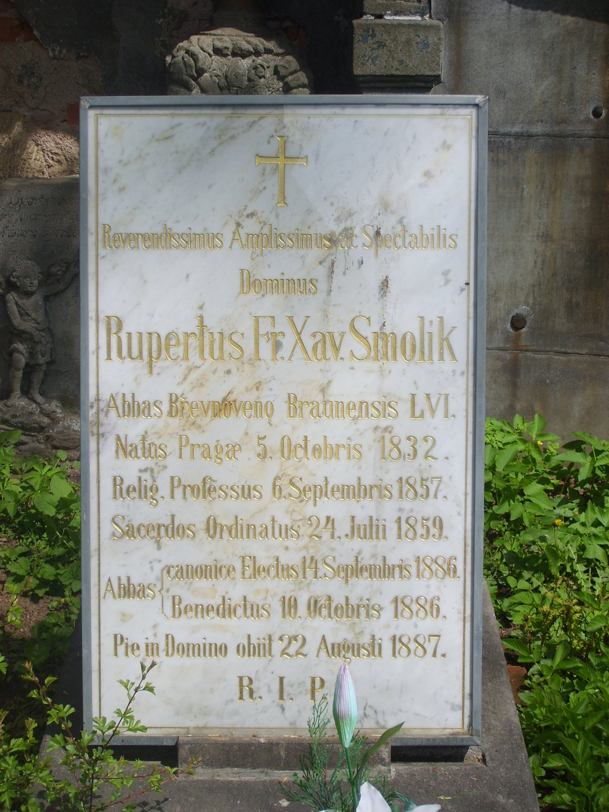 Tombstone of Rupert Smolík (1832-1887), Czech priest and professor of theology and abbot of a Benedictine monastery. It is located at a cemetery in Broumov.